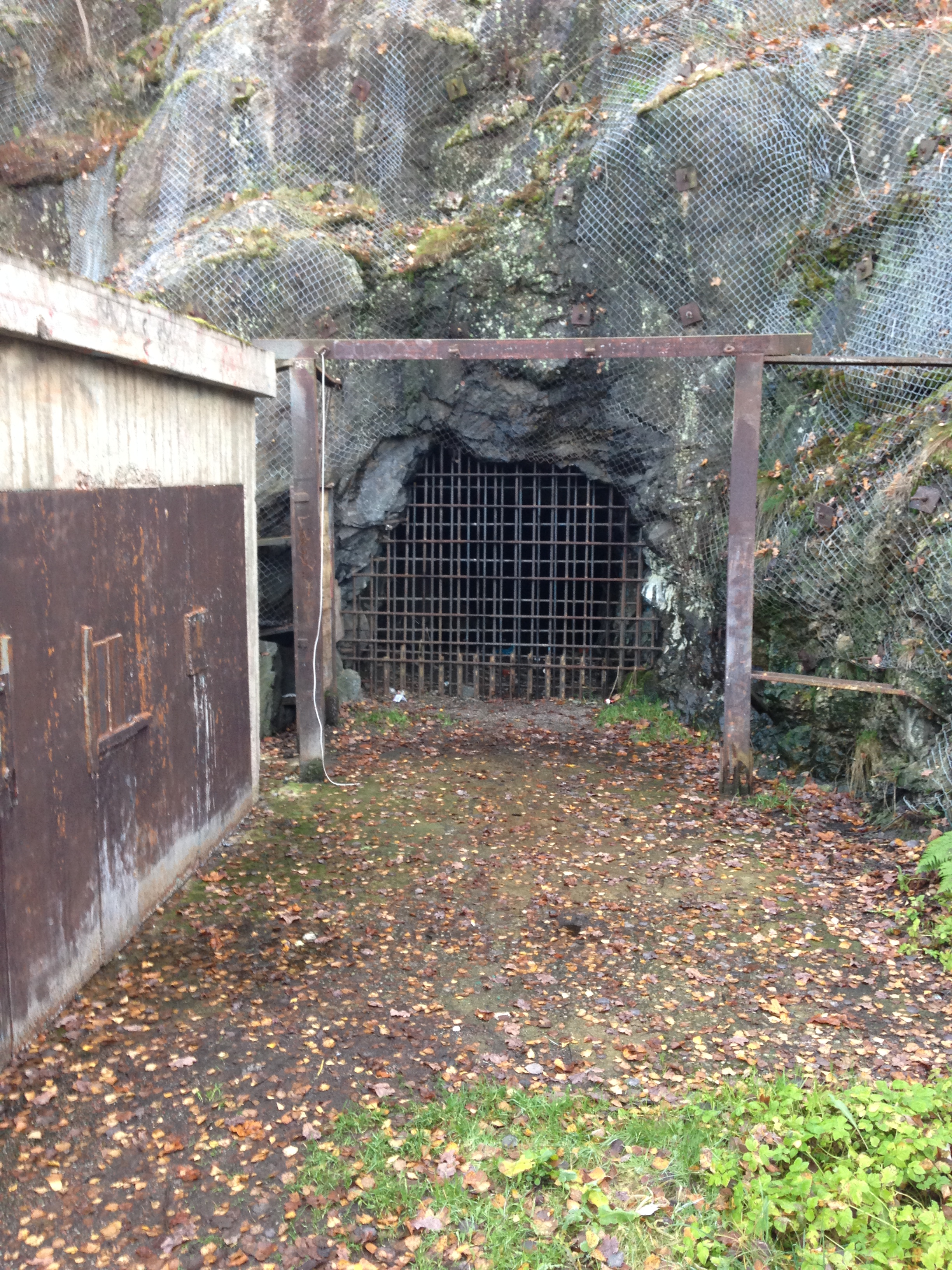 A photo from Nobels blast pits, 2013